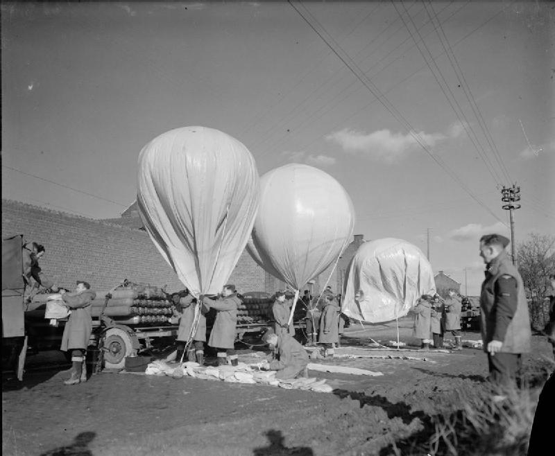 Royal Air Force- 2nd Tactical Air Force, 1943-1945. Personnel of No. 1 'M' Balloon Unit inflating M-type balloons from hydrogen cylinders by the roadside at Bunsbeek, Belgium, before loading them with propaganda leaflets for despatch over areas of Germany.